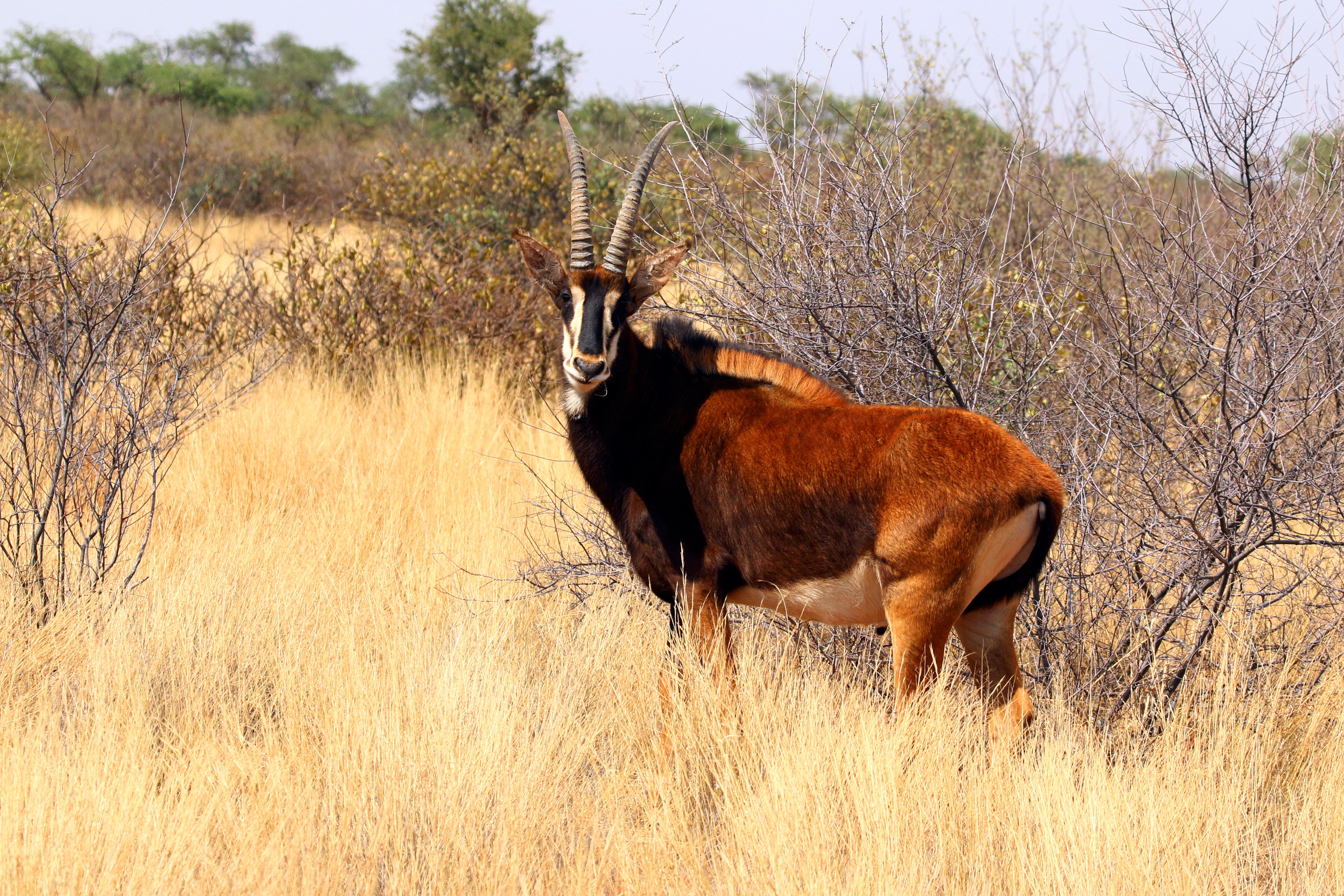 Sable antelope (Hippotragus niger) young male, Tswalu Kalahari Reserve, South Africa